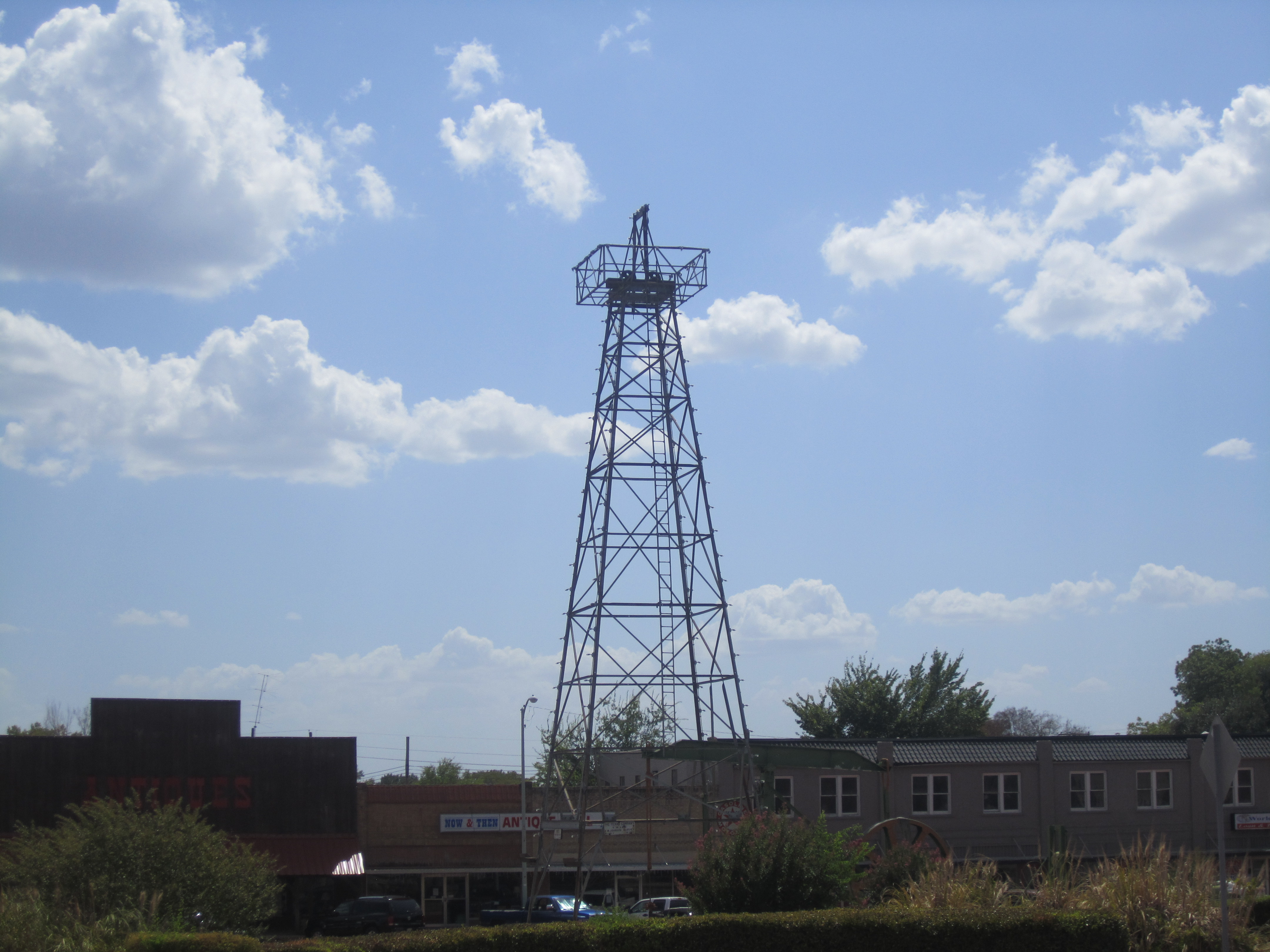 I took photo with Canon camera of downtown district of Gladewater, TX, of a model oil derrick.